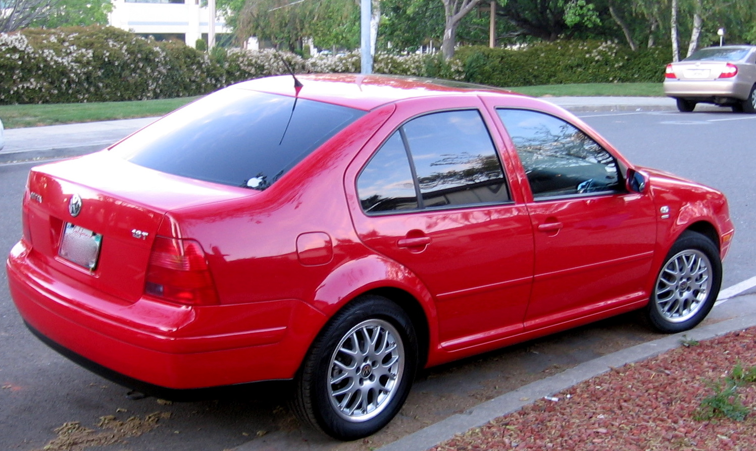 2001 model VW Jetta 1.8 Turbo Wolfsburg Edition. Profile view.